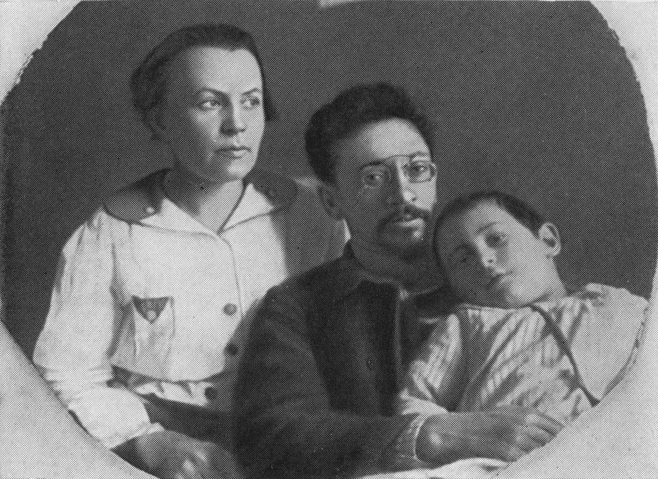 Politician of the USSR. Yakov_Sverdlov (1885-1919)